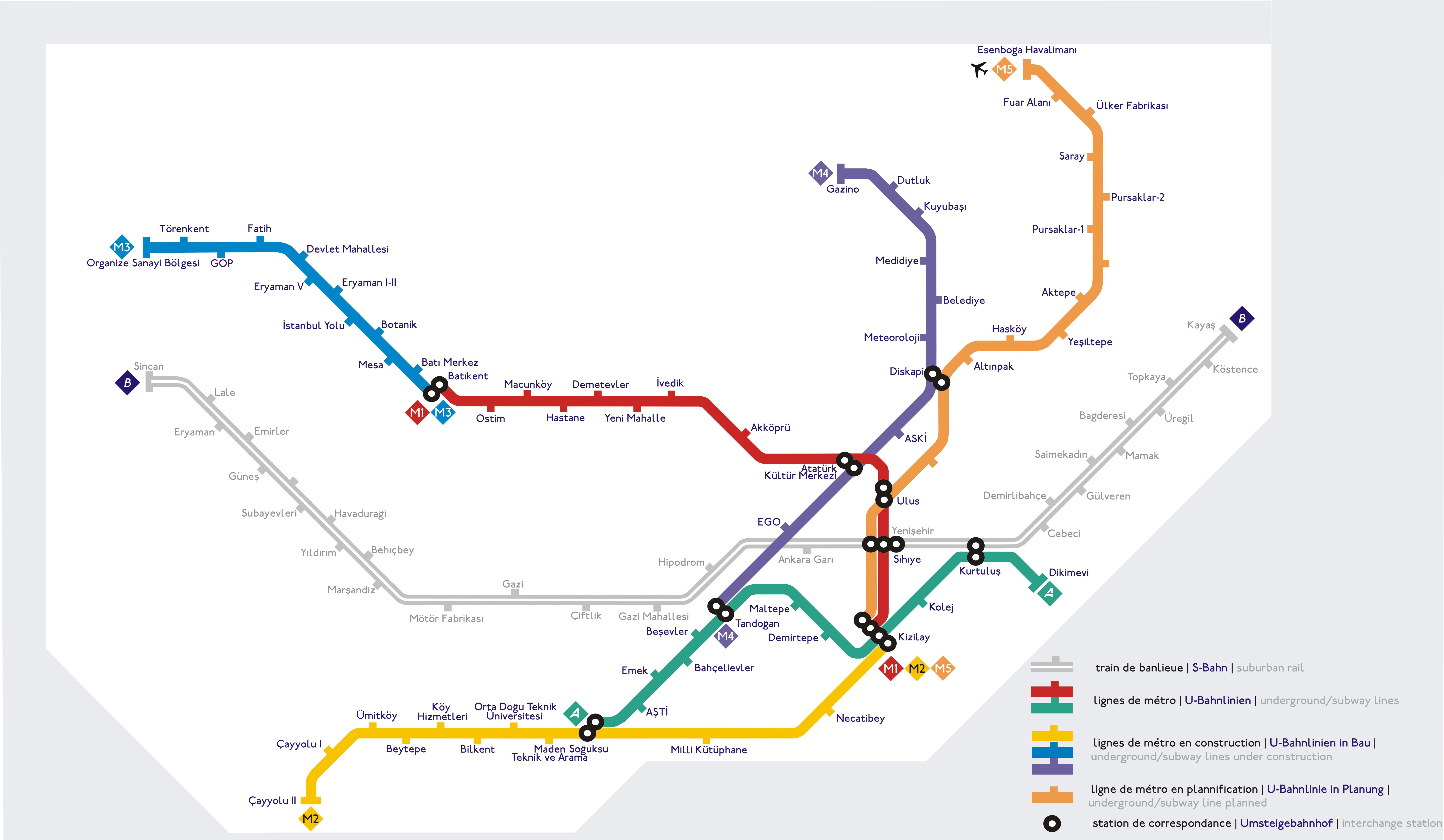 Metro Ankara Network Extension